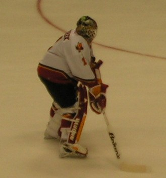 Roman Turek while warmup in Anaheim